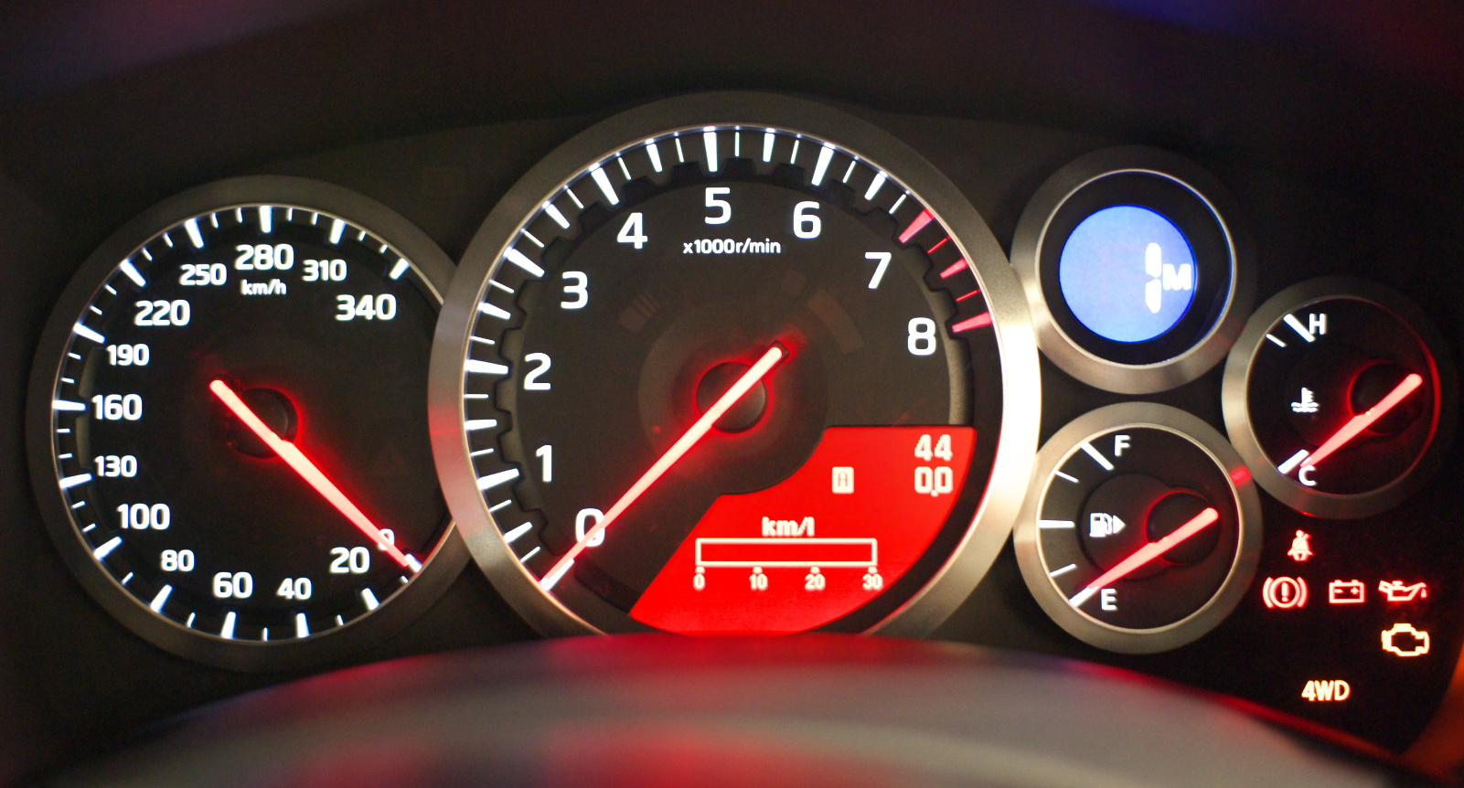 Nissan GT-R Meter supplied by Calsonic Kansei